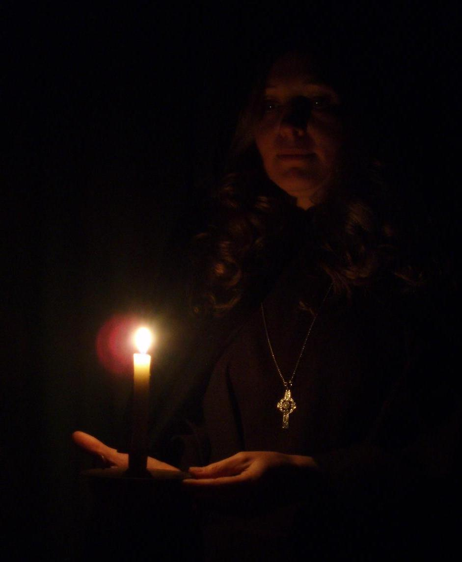 Sister Fidelma personification